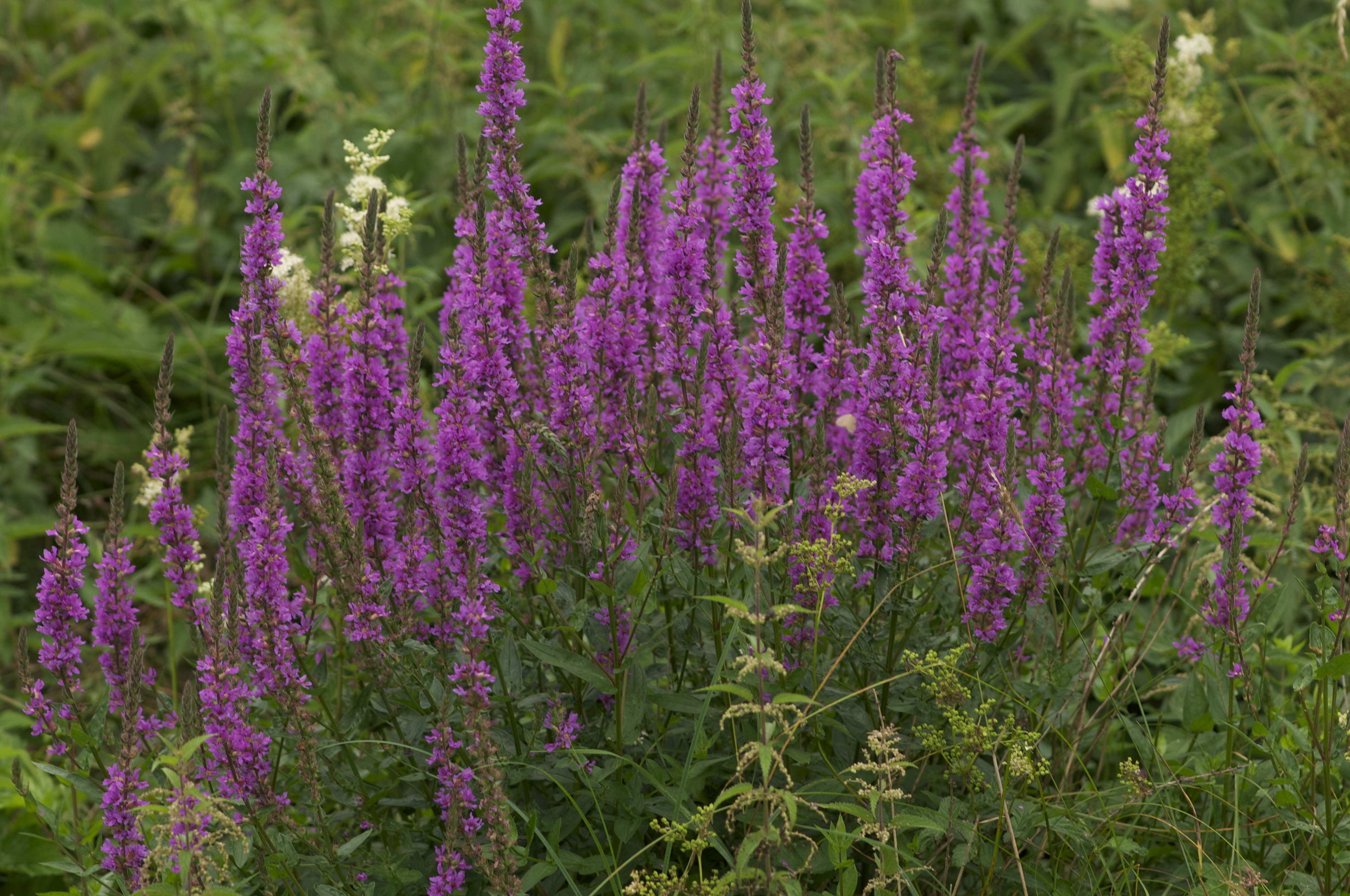 Purple loosestrife (Lythrum salicaria), growing in a meadow in Lower Austria